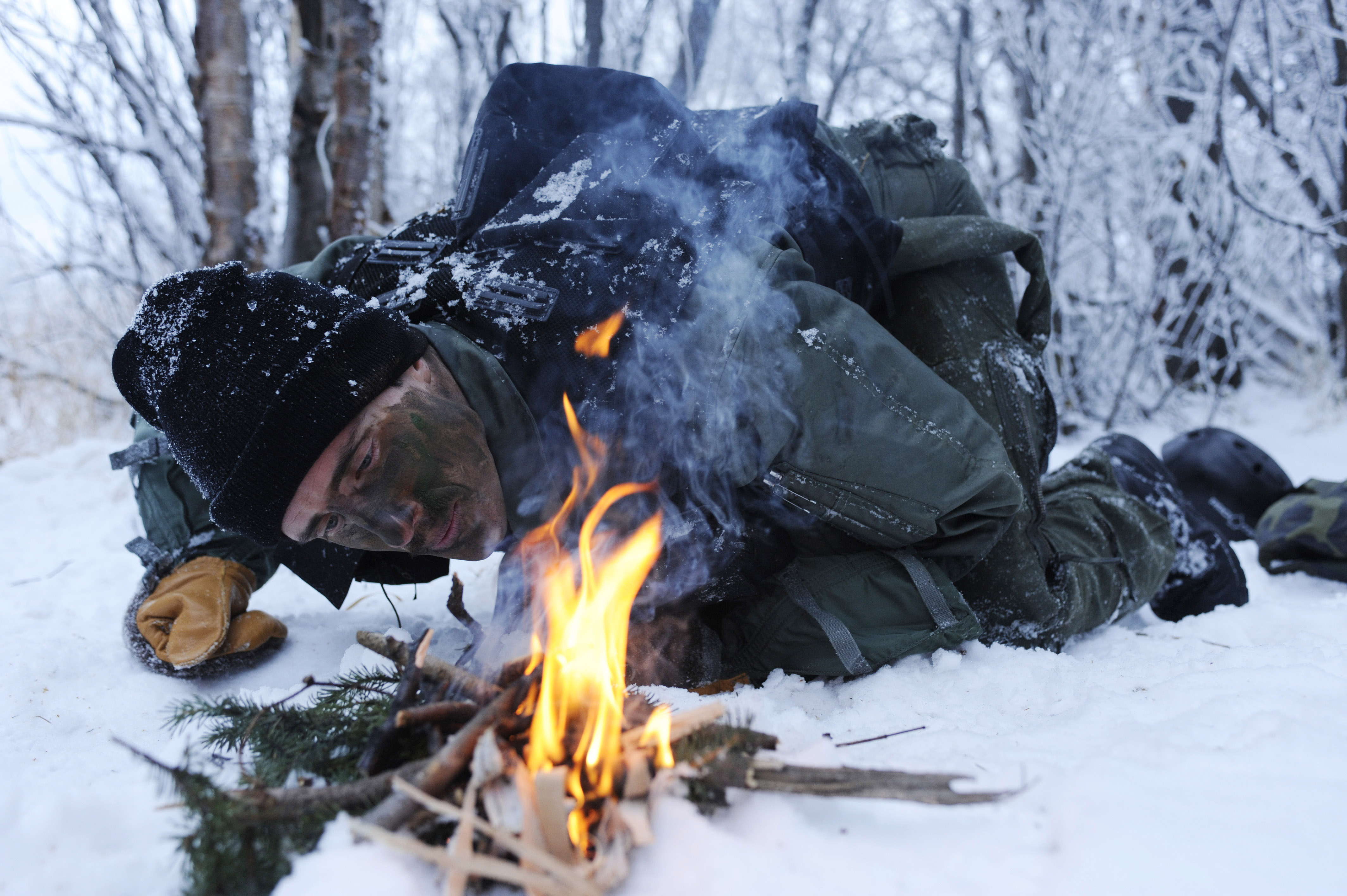 U.S. Air Force 1st Lt. Matthew Feeman, of the 80th Fighter Squadron out of Kunsan Air Base, South Korea, builds a fire to help combat frostbite and hypothermia during a survival, evasion, resistance and escape exercise in support of Red Flag - Alaska near Eielson Air Force Base, Alaska, on Oct. 14, 2008. Feeman is role-playing a pilot who was shot down behind enemy lines. Red Flag - Alaska is a Pacific Air Forces-directed field training exercise for U.S. and coalition forces flown under simulated air-combat conditions.